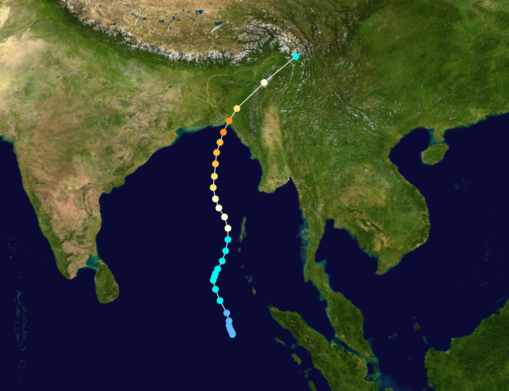 Cyclone 01A 1997 track. Uses the color scheme from the Saffir-Simpson Hurricane Scale.